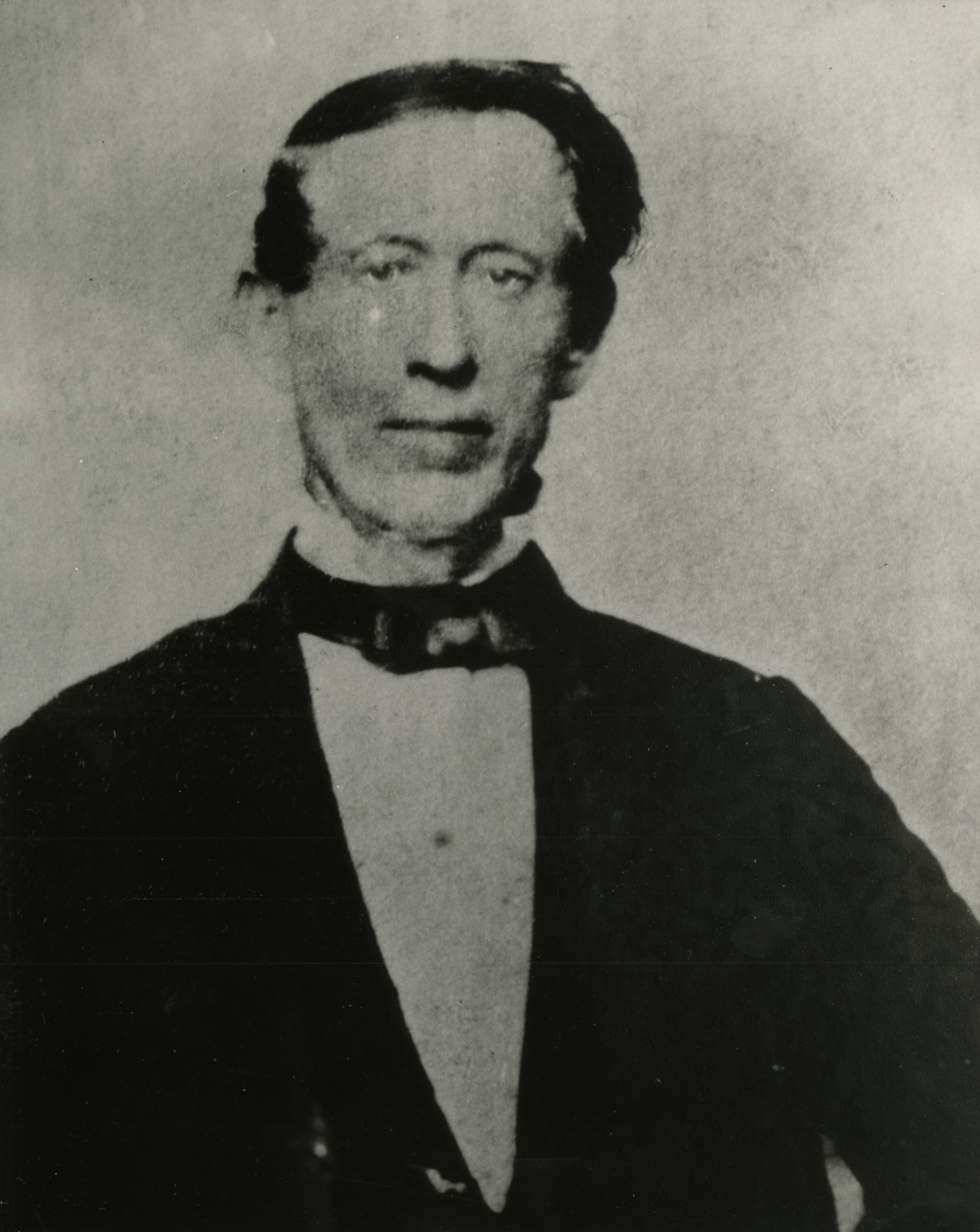 Photo of Lafayette McMullen, Governor of the territory of Washington from 1857–1858.